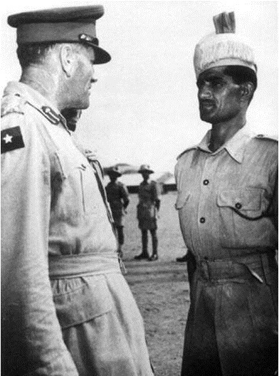 FM Auchinleck inspecting 17/10th Baluch (now 19 Baloch Regiment (SSG)) at Bisitun, Persia where it formed part of PAI Force.